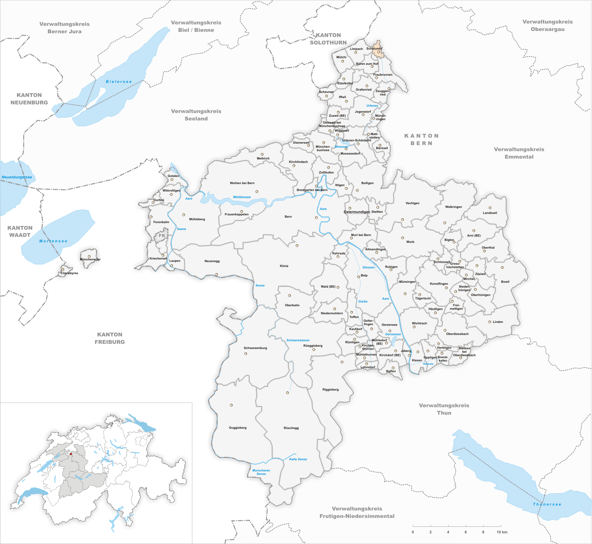 Municipality Schalunen